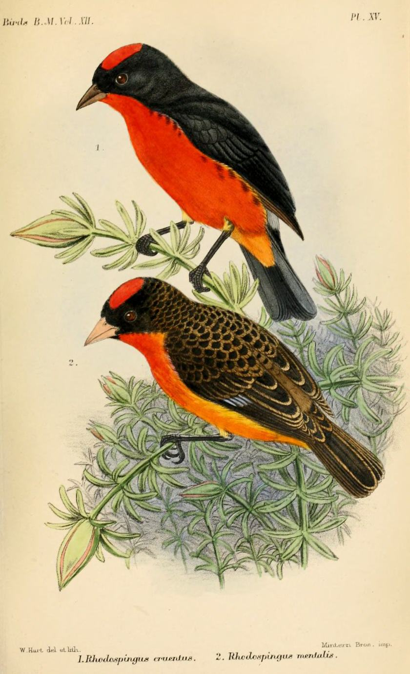 Crimson-breasted Finch